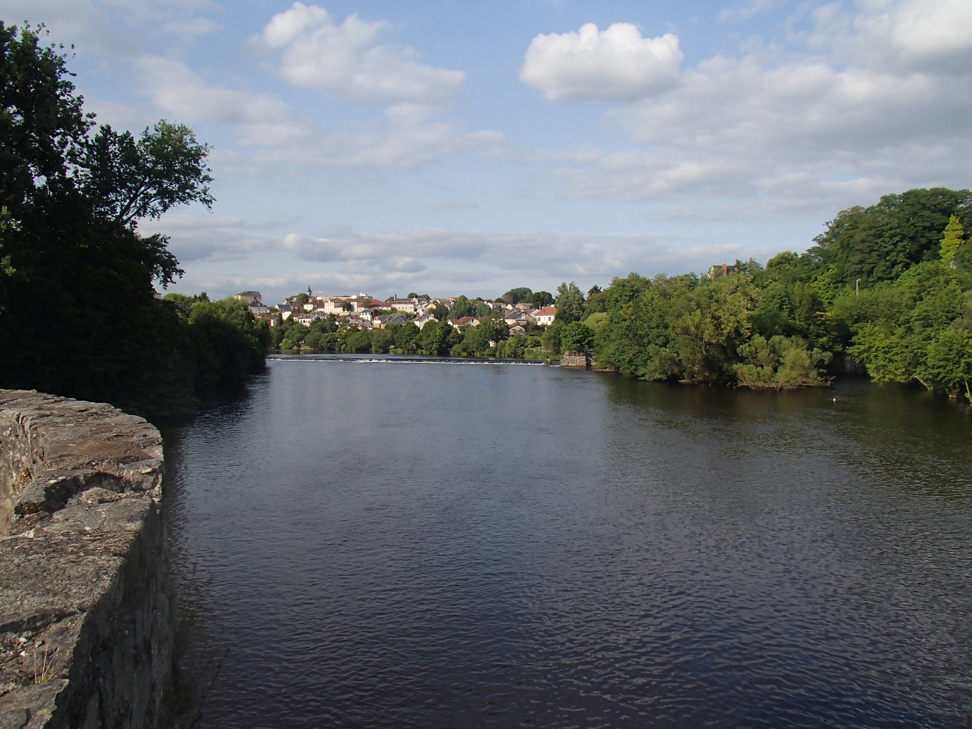 La Vienne Limoges